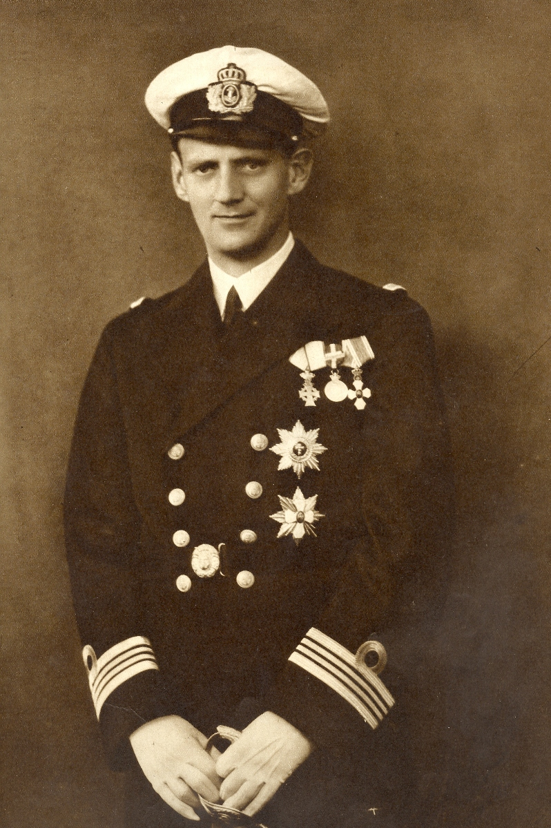 King Frederick IX of Denmark (king 1947-1972). Photo from 1935.